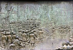 The Prince of Wales Stutue, has inscriptions on all the 4 sides.